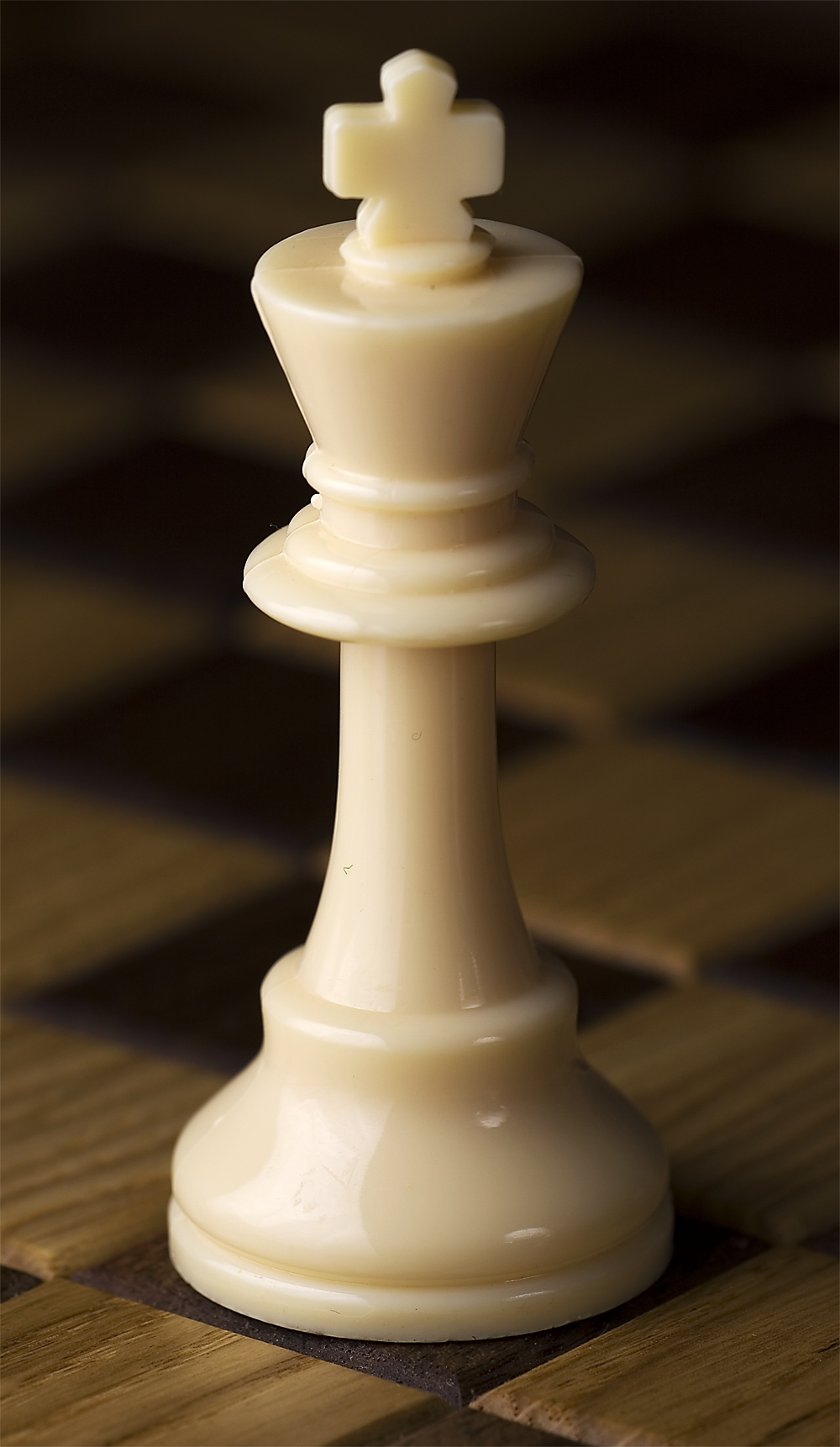 Chess piece - White king, Staunton design